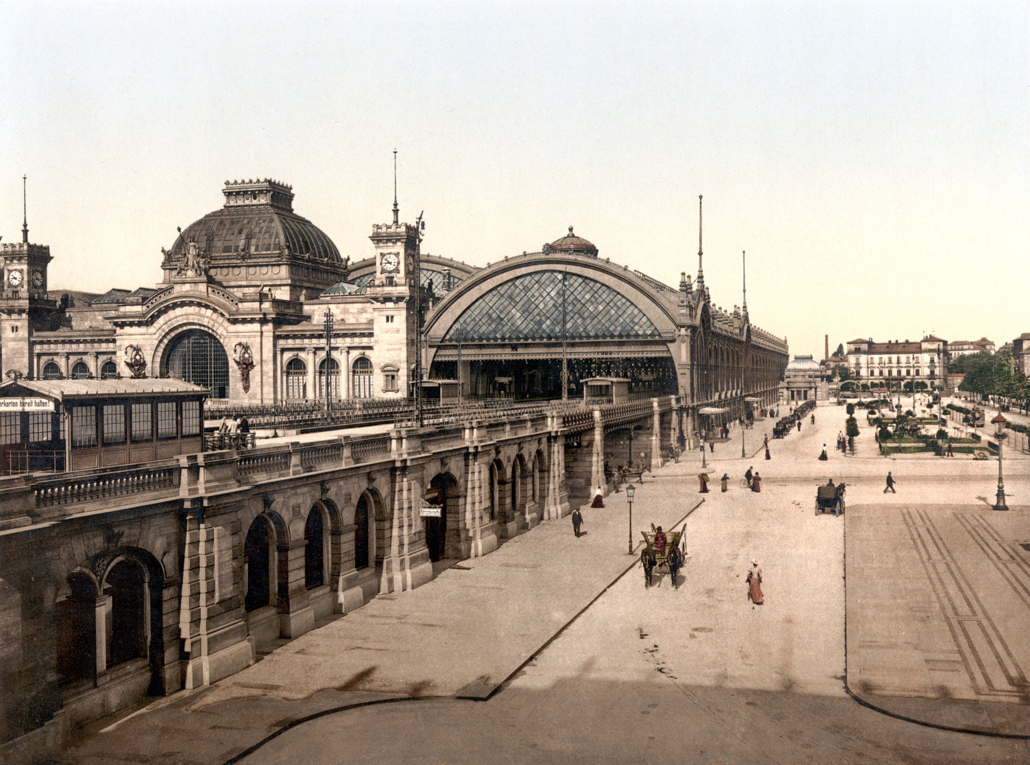 Dresden (Saxony, Germany) - Hauptbahnhof Wiener Platz